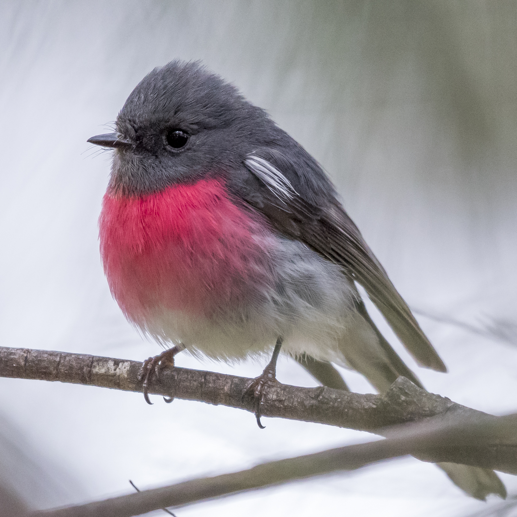 Male Rose Robin in Palmerston, Canberra